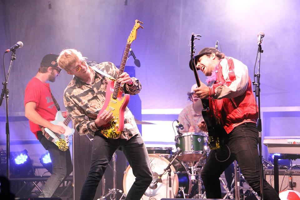 New Swears performing at Arboretum Fest, Ottawa, 2015